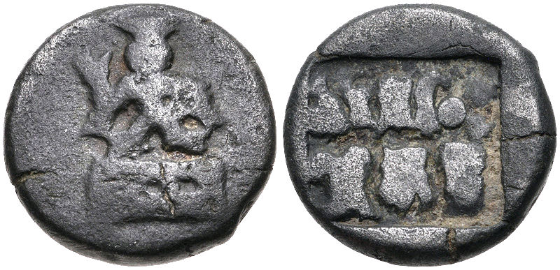 Coin of the Panchalas of Adhichhatra. Indramitra. Circa 75-50 BC. (16mm, 4.14 g, 12h) God Indra seated facing on pedestal, holding bifurcated object Rev: idramitrasa in Brahmi; Panchala symbols above